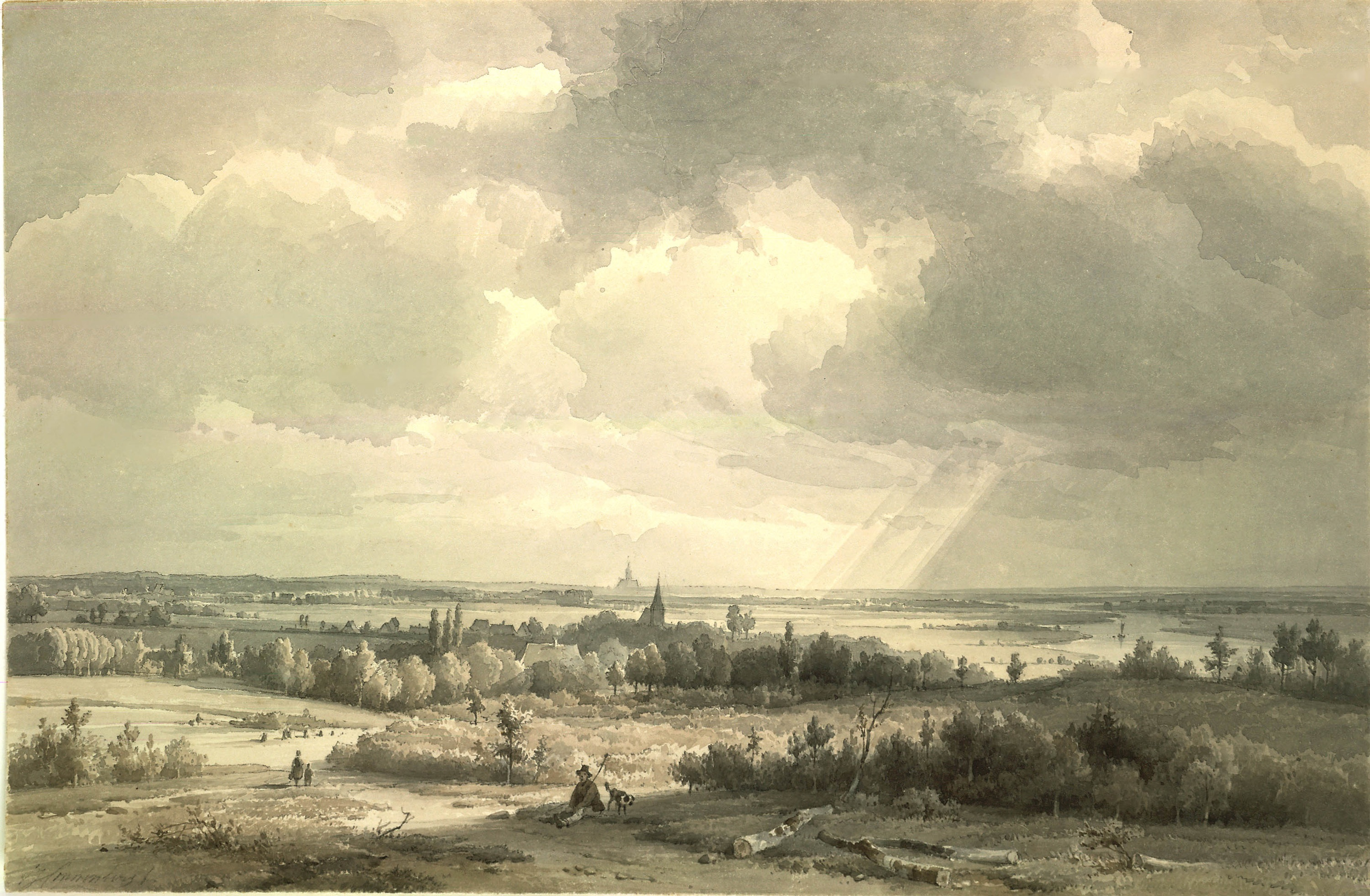 Gezicht op Oosterbeek en Arnhem